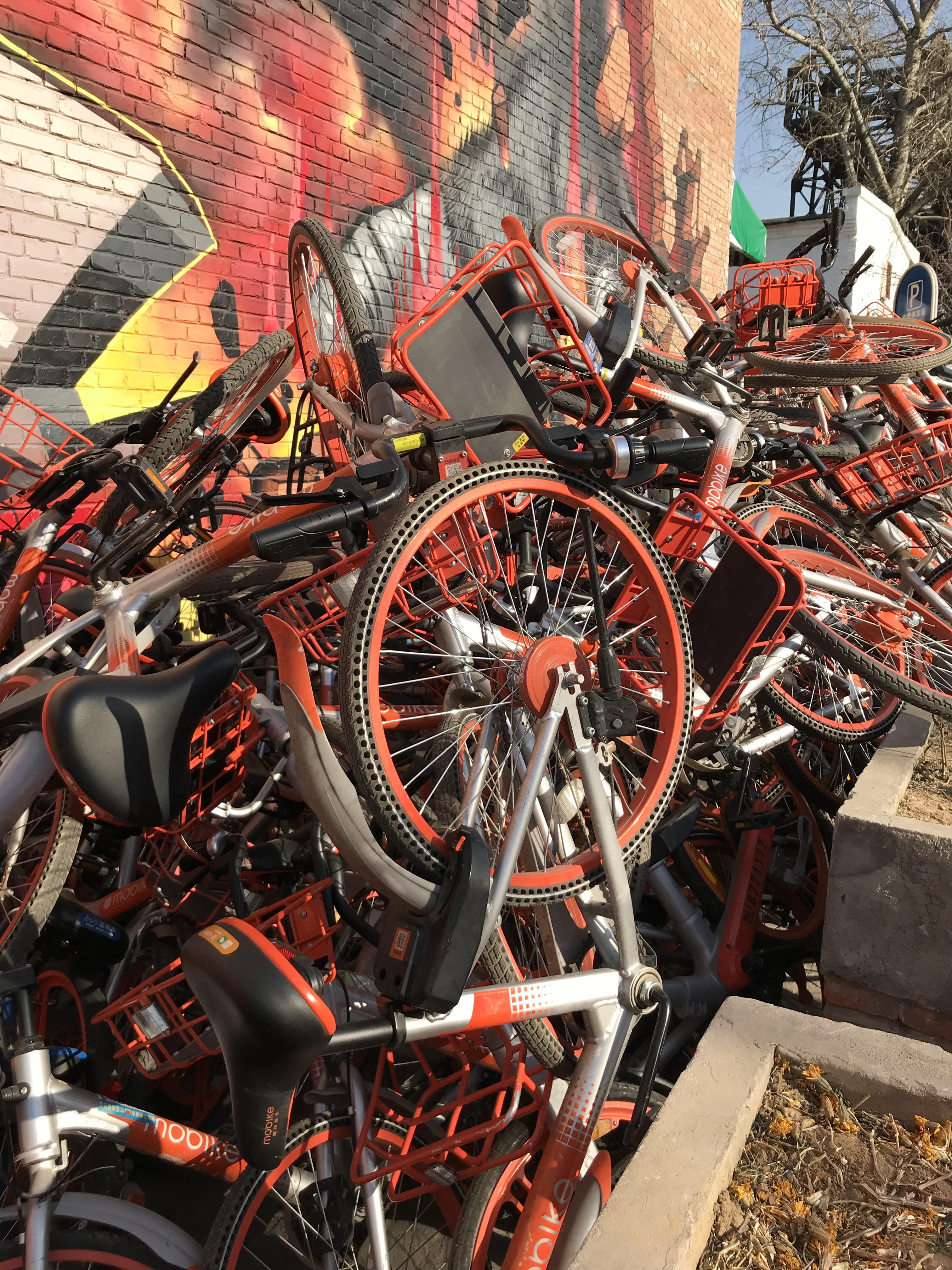 Photo of a pile of bike-share bicycles cluttering the sidewalk in 798 Arts District, Beijing, China.